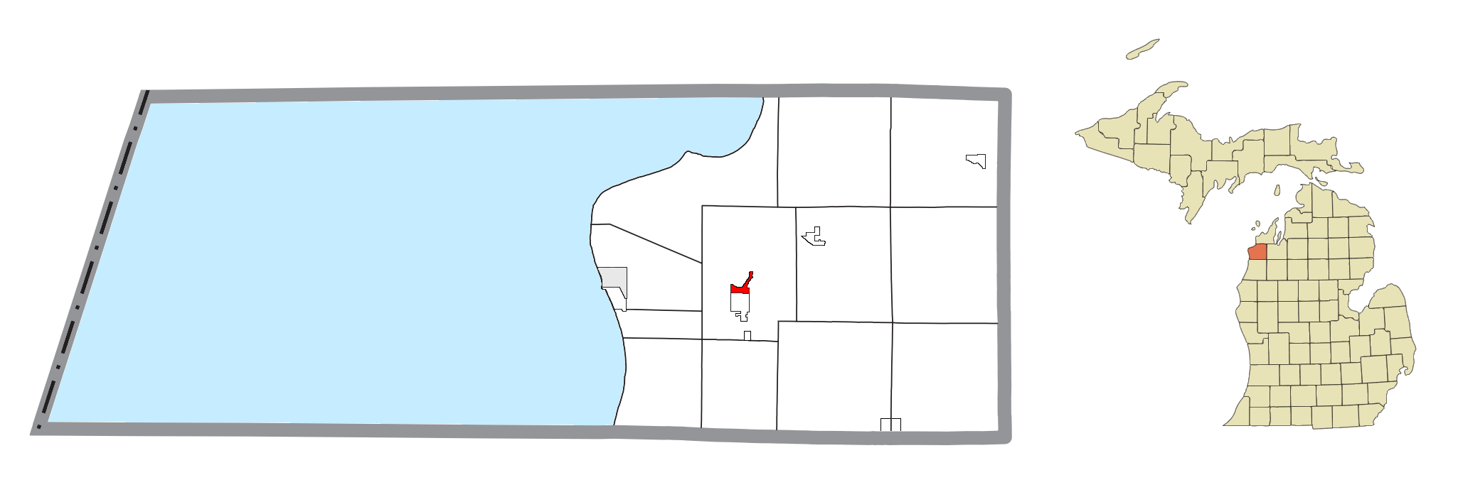 Beulah, MI